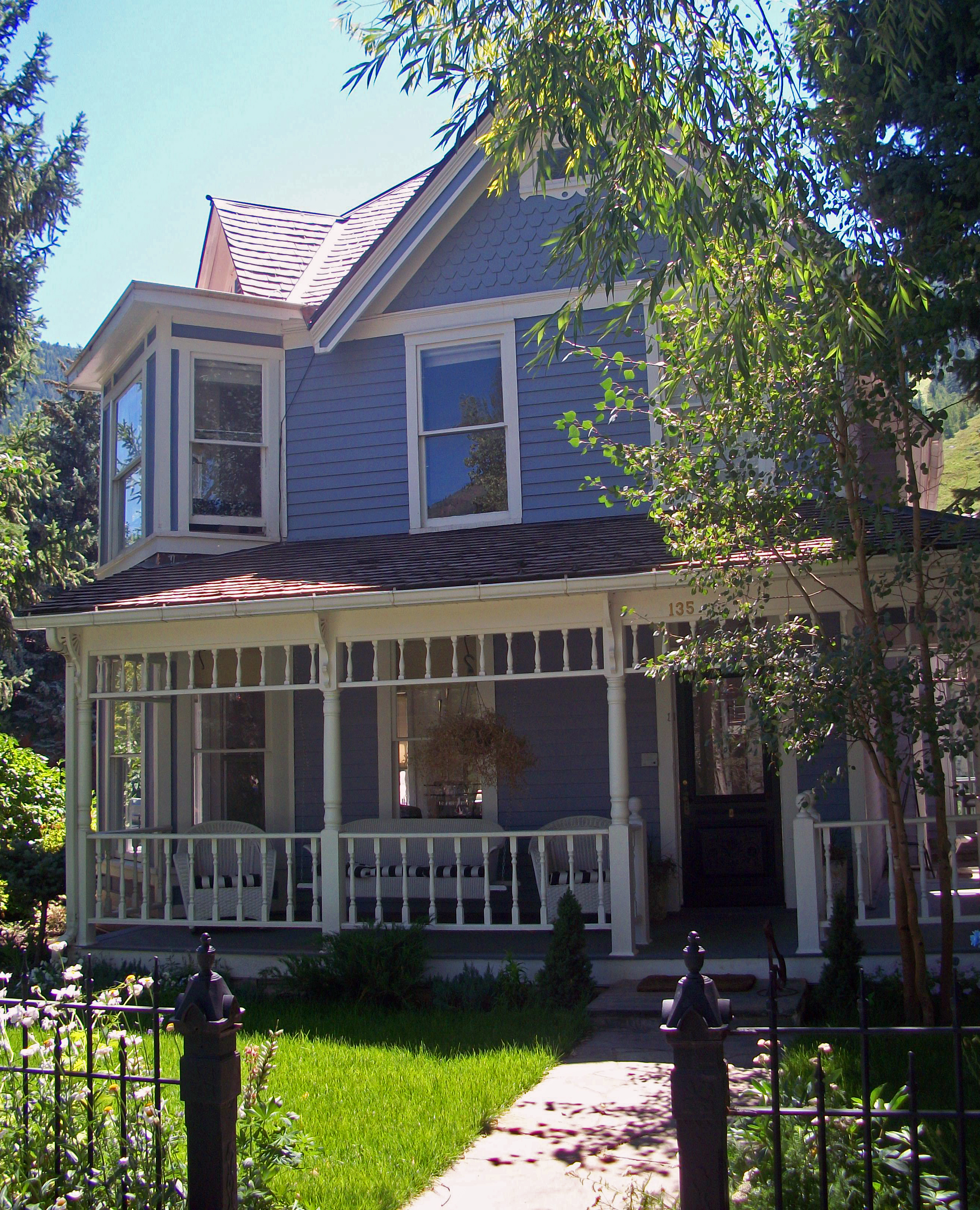 Dixon–Markle House, Aspen, CO, USA. Side view here